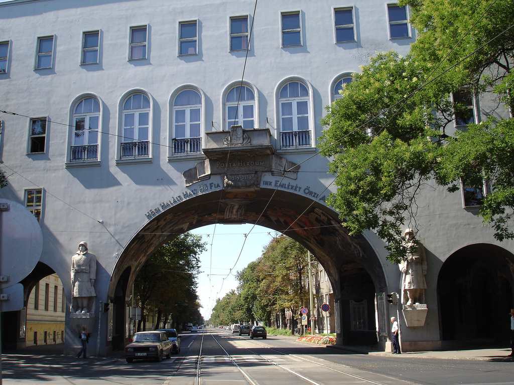 Memorial entry 1937. Moric Pogany architect, Vilmos Aba-Novák fresco, Éva Lőte statues